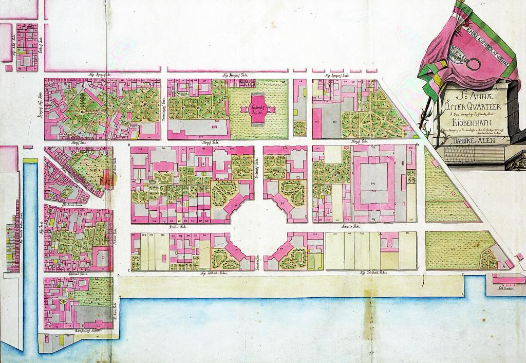 Excerpt from a map of St Annæ Øster Kvarter, 1757, showing Frederiksstaden.